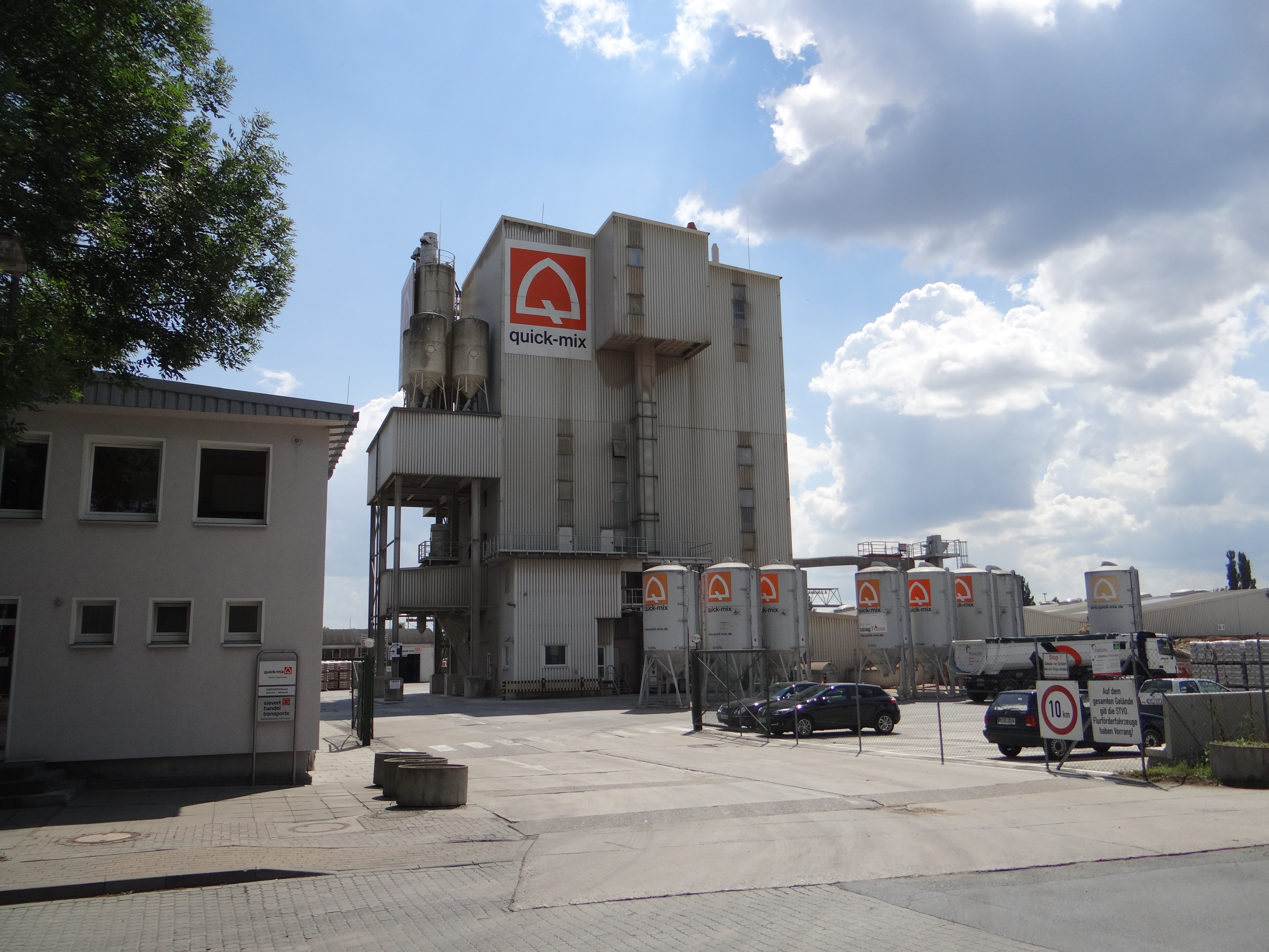 Conrete plant in Hannover, Germany.